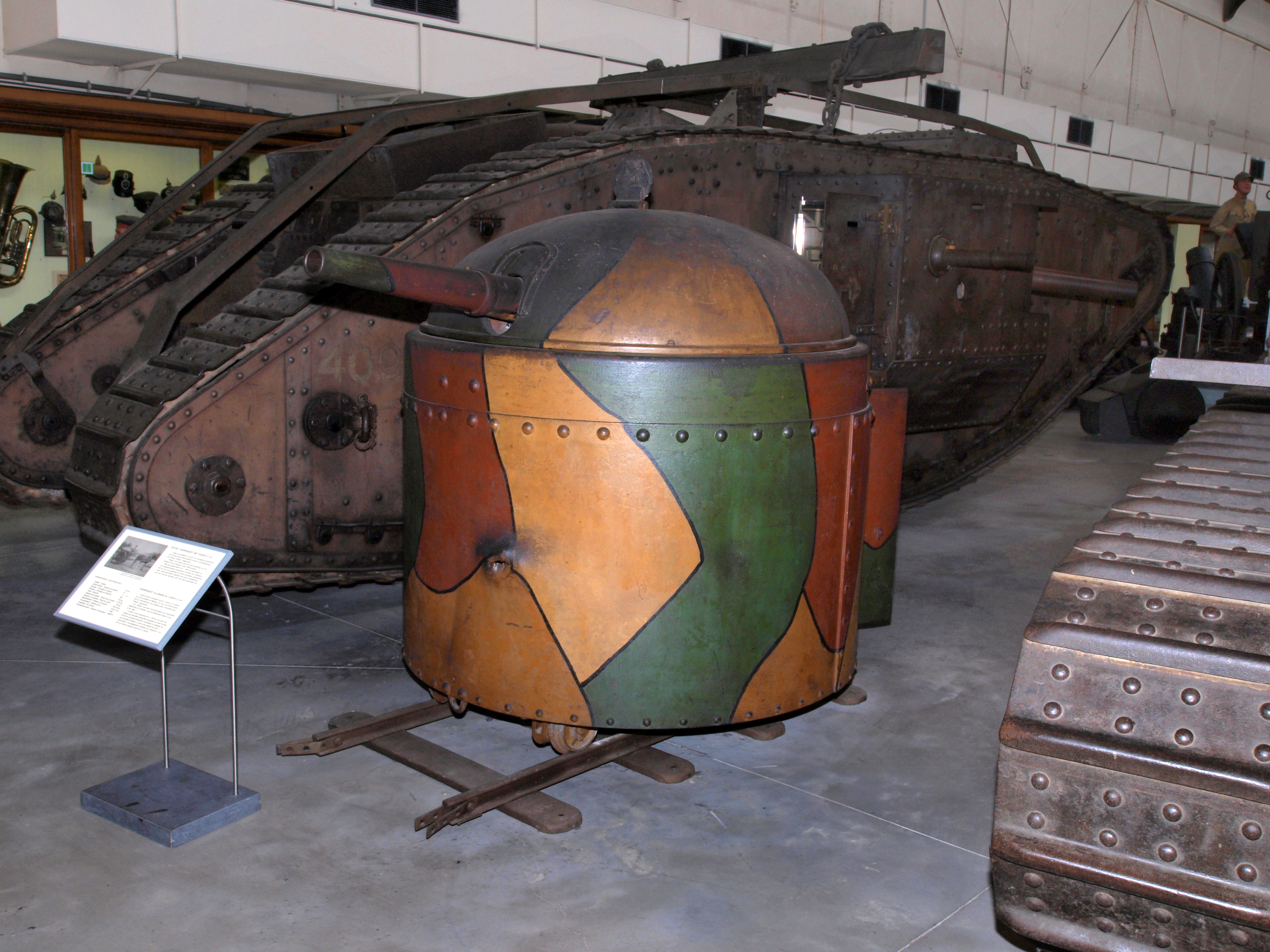 Photo taken at the Royal Military History Museum, Brussels, Belgium.